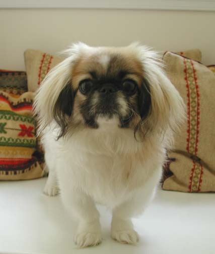 Photograph of a sleeve pekingese puppy named Szusza, taken by Jon Radoff and Angela Bull in 2002.